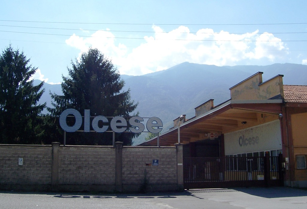 Olcese, Cogno, Val Camonica